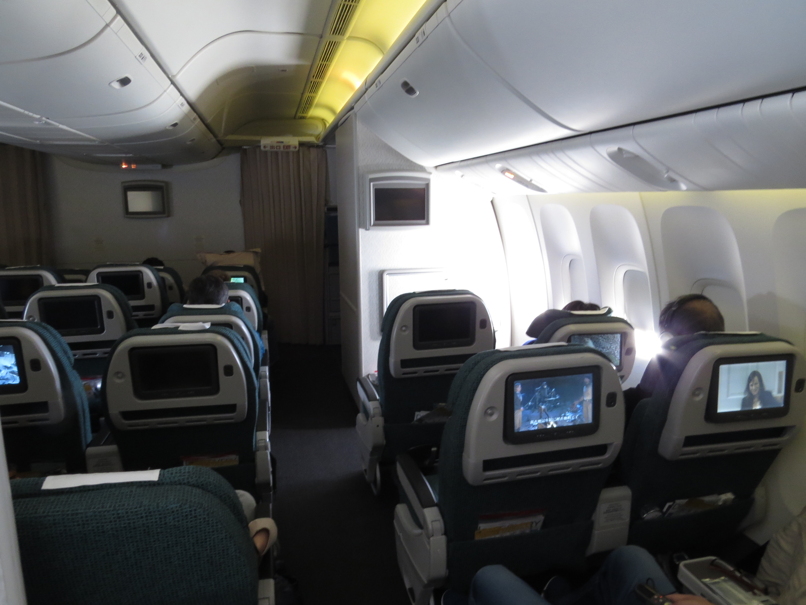 Onboard Cathay Pacific Flight 391 from Beijing to Hong Kong. Premium Economy Class seats on regional flights are often reserved for those Marco Polo Club members.